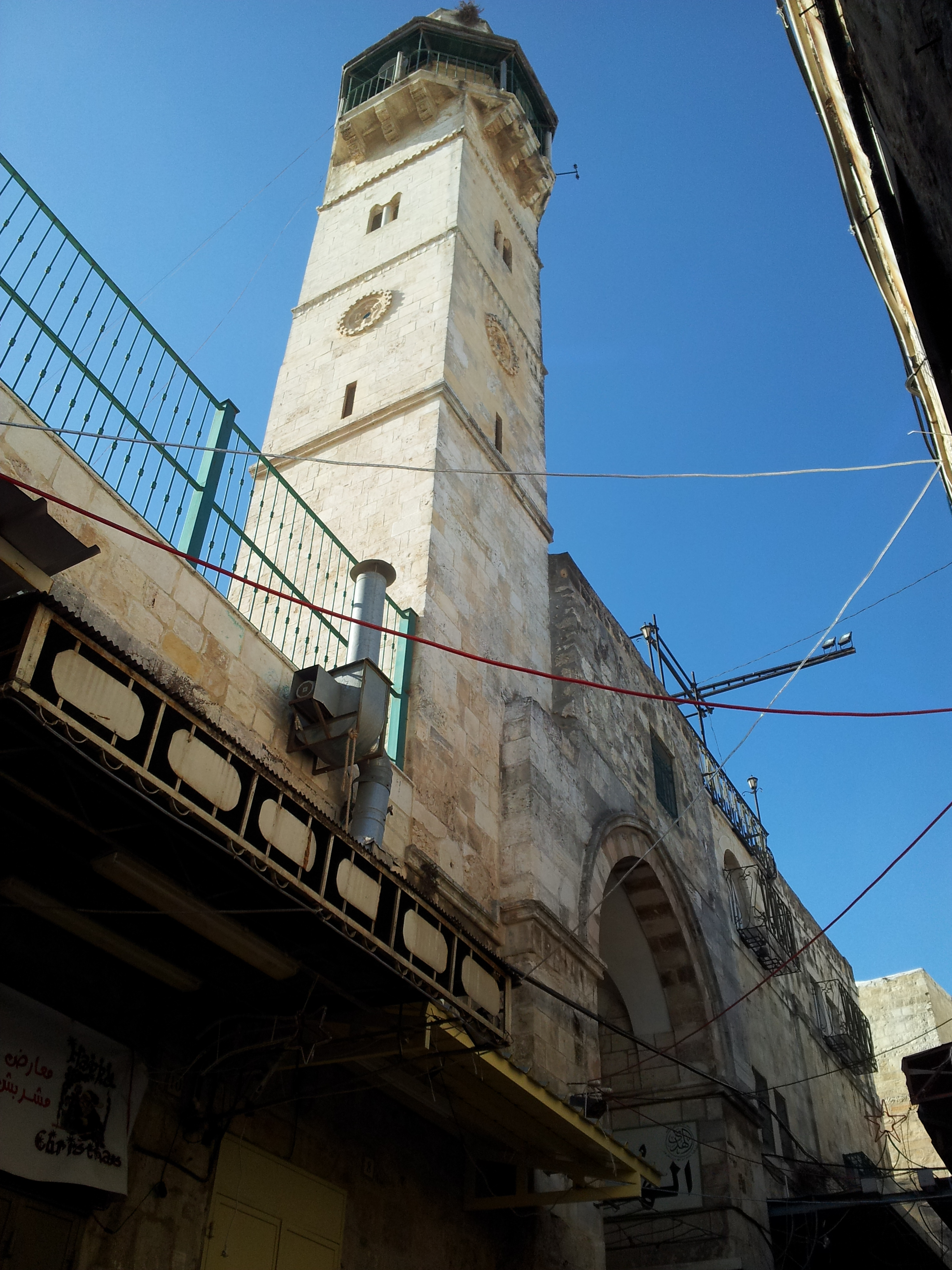 Old Jerusalem, Christian Quarter, al khanakka al slakhiys jerusalem